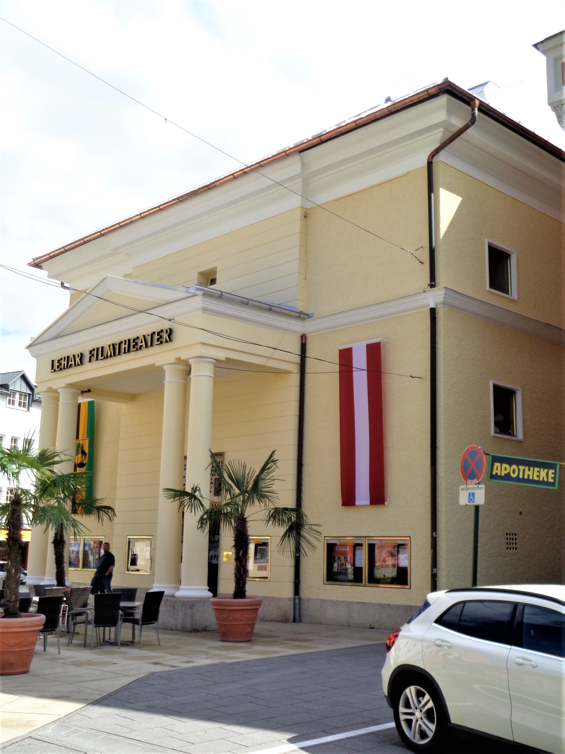 Lehar Theatre in Bad Ischl, Upper Austria, Austria